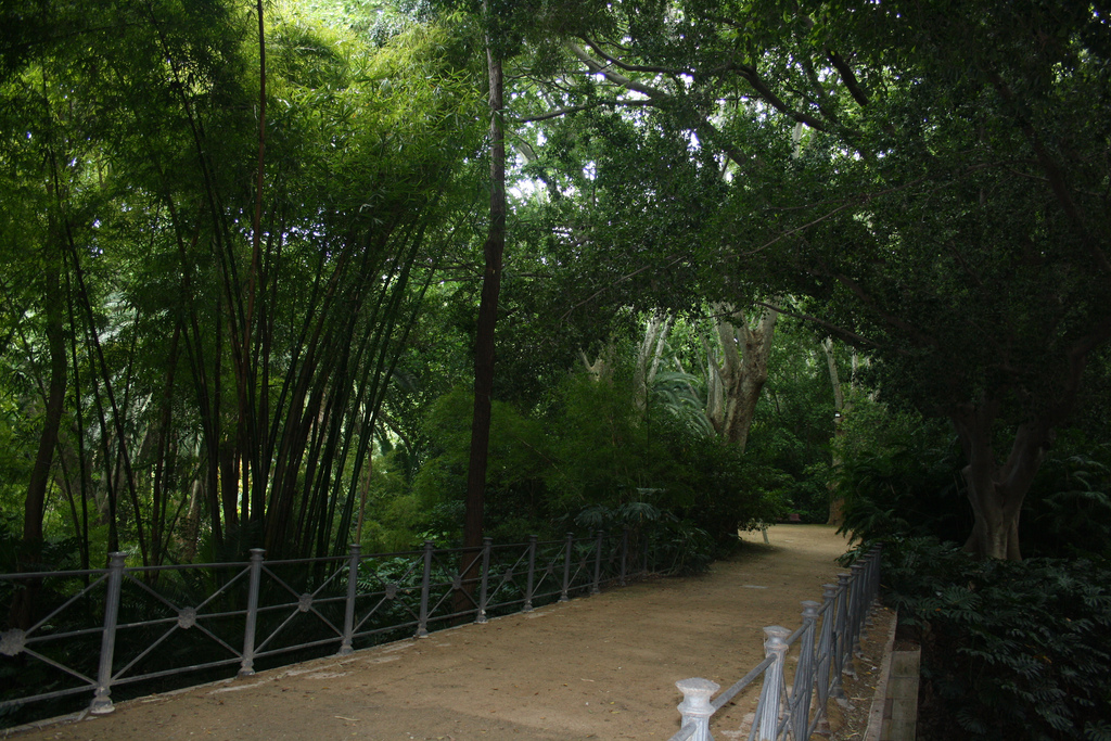 La Concepción Historical-Botanical Gardens, Malaga, Spain.